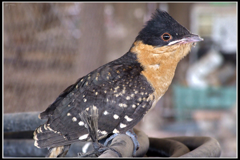 A chick that was raised by a Hooded Crow and fell from the nest